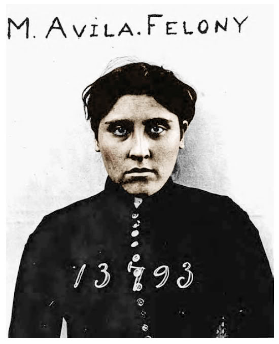 Modesta Avila.